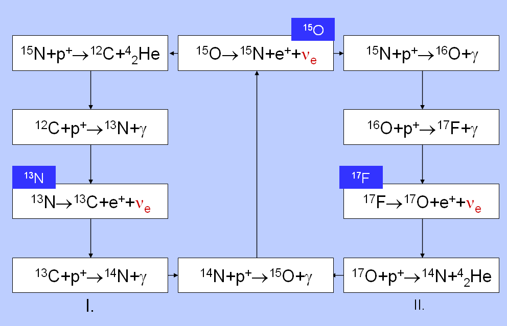 The CNO cycle of the stars.